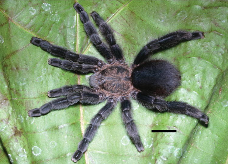 Female Pachistopelma bromelicola in habitat